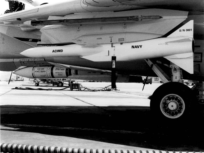 The mockup of a Advanced Common Intercept Missile Demonstration (ACIMD) on a U.S. Navy Grumman F-14A Tomcat fighter at the China Lake Naval Weapons Center in the early 1980s. No missile had been tested when the program was cancelled in 1987. Originally named AIM-152, the development led to the AIM-120 AMRAAM.